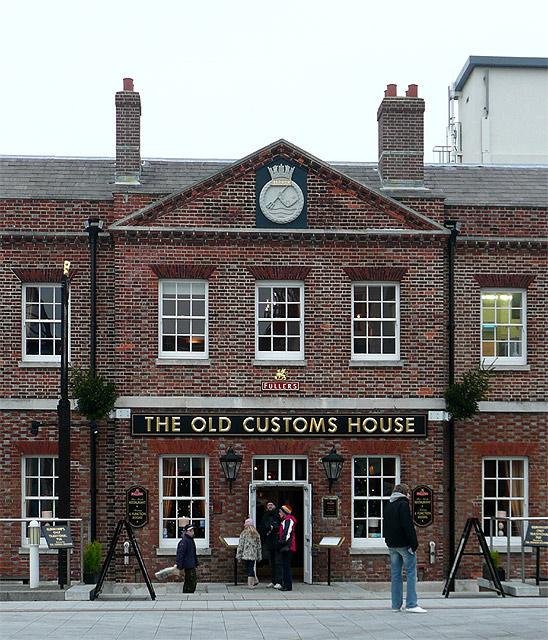 The Old Customs House, Portsmouth. On Gunwharf Quays. The pub's website says: "The Old Customs House was until 1986 the shore establishment of HMS Vernon, for over 110 years a centre of innovation and invention in the Royal Navy and home of the torpedo and mine. The building constructed in 1790 is a scheduled monument and is believed to be one of first examples of a specifically designed office building. The fabric of the building has been faithfully restored using traditional methods of the late 18th century." See also: 1108327